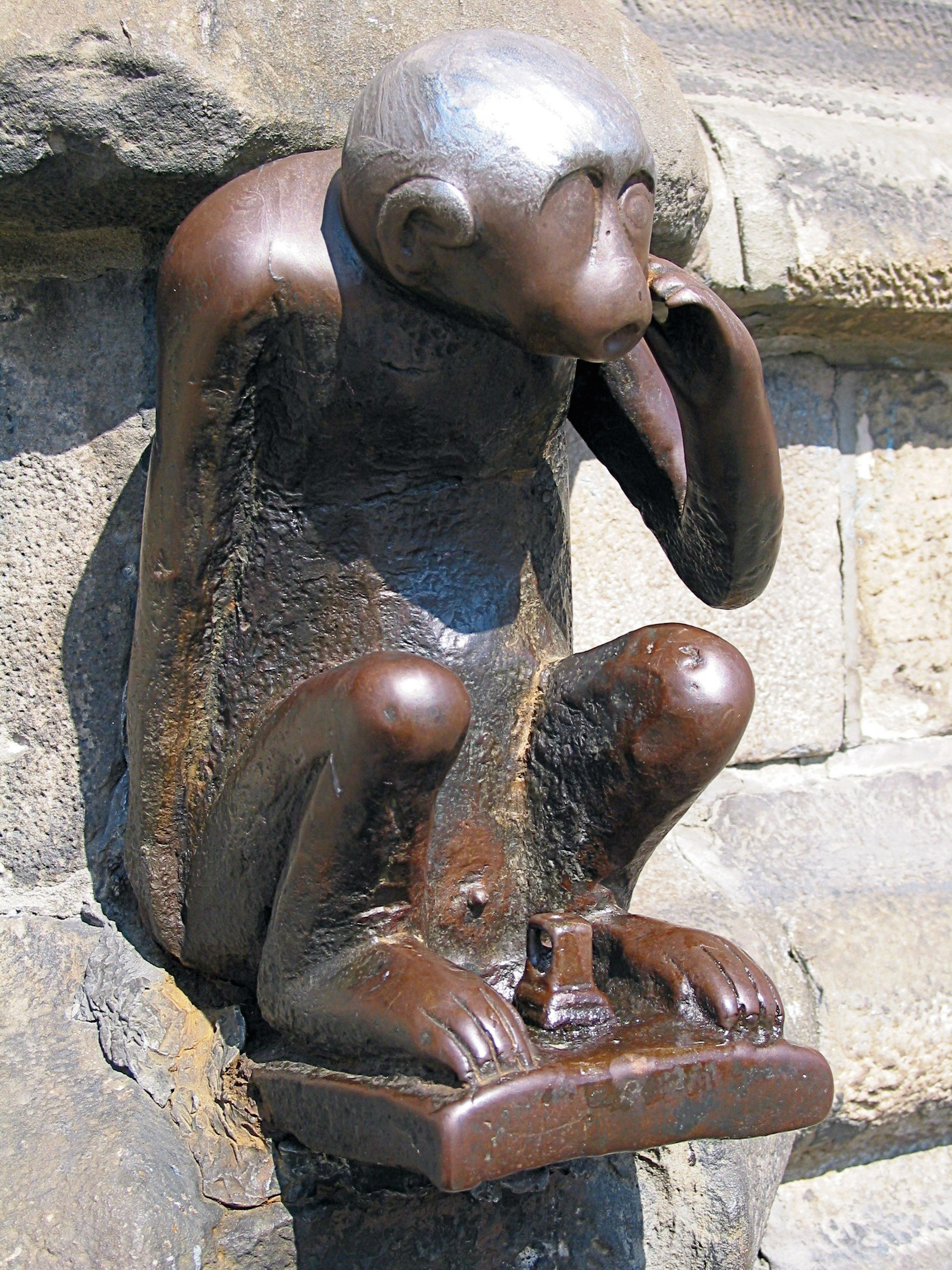 Mons (Belgium), little monkey of the city hall statue, preferably named «Singe du Grand Garde».